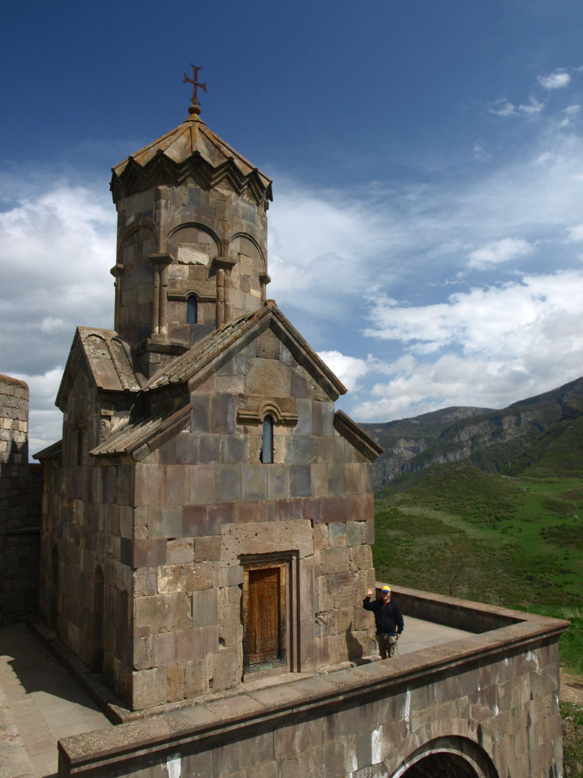 The XIth century St. Mother of God church, part of the monastery of Tatev in southern Armenia.